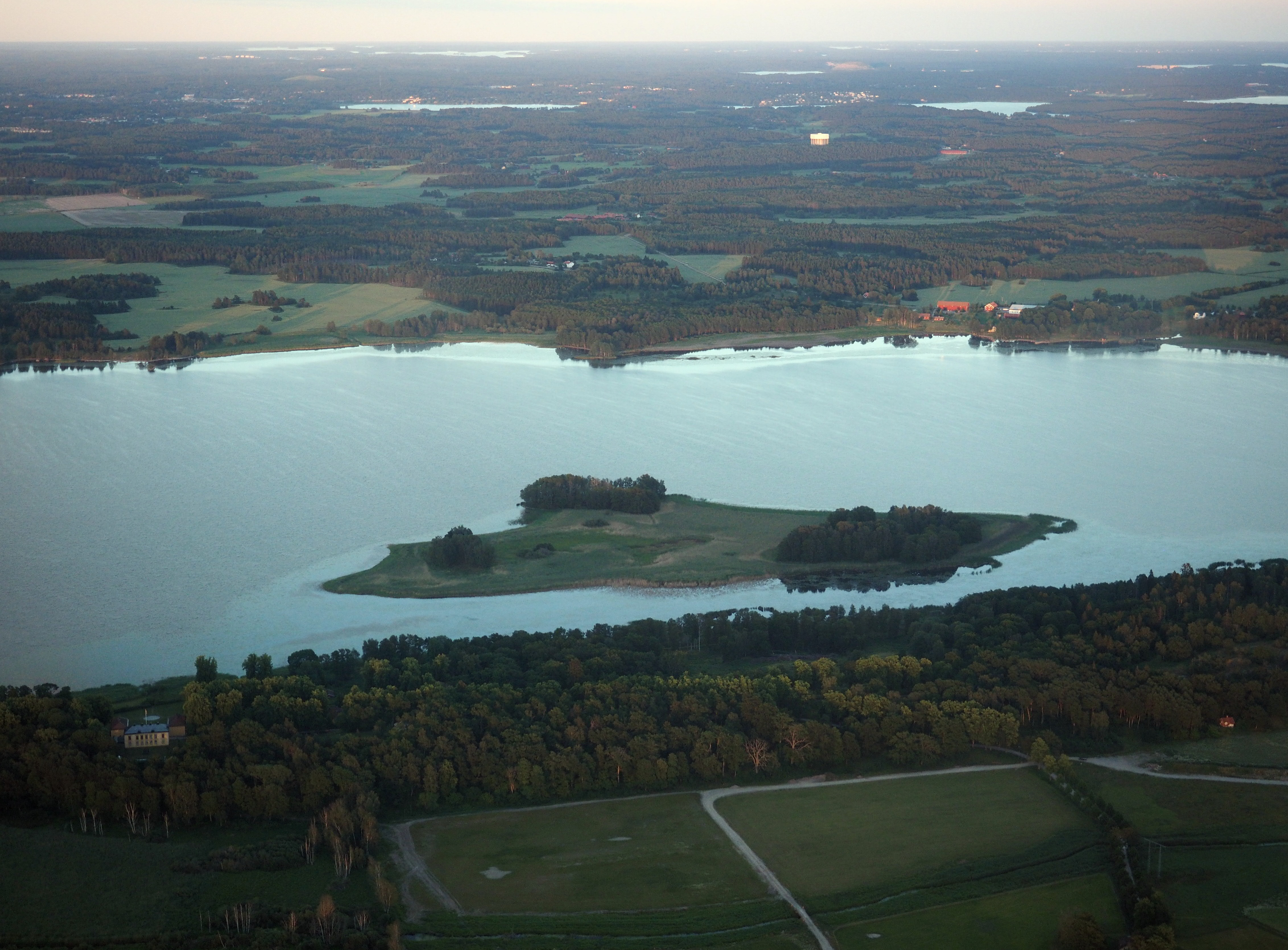 Stora Kyngan island in lake Fysingen photographed from airplane window over Sigtuna, Sweden. Nature reserve area.